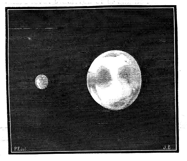 An artist’s impression of Venus and its satellite